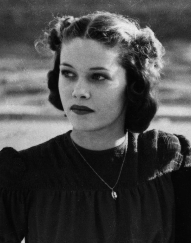 Georgiana Young in a publicity photo from 20th Century Fox, 1938